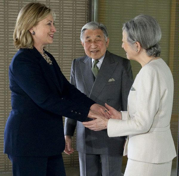 Hillary Rodham Clinton, Secretary of State, met Emperor Akihito and Empress Michiko at Tokyo Imperial Palace in Chiyoda Ward, Tōkyō Metropolis on April 17, 2011.